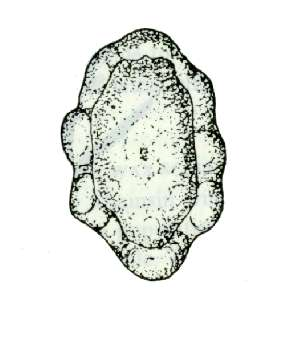 Florida wax scale. Ceroplastes floridensis (Hemiptera: Coccidae)